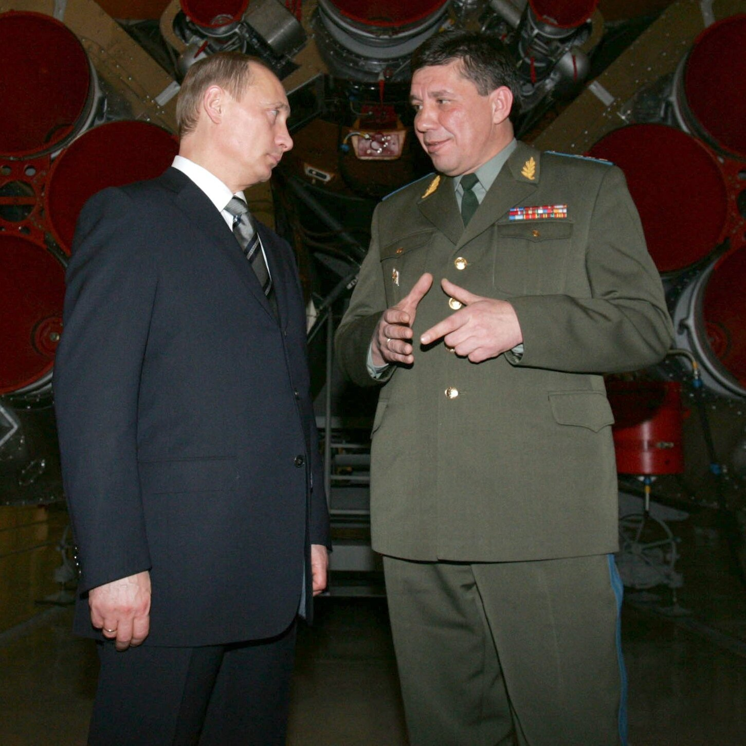 Russian president Vladimir Putin with Space Forces Commander Vladimir Popovkin. Plesetsk Cosmodrome, 14 December 2006